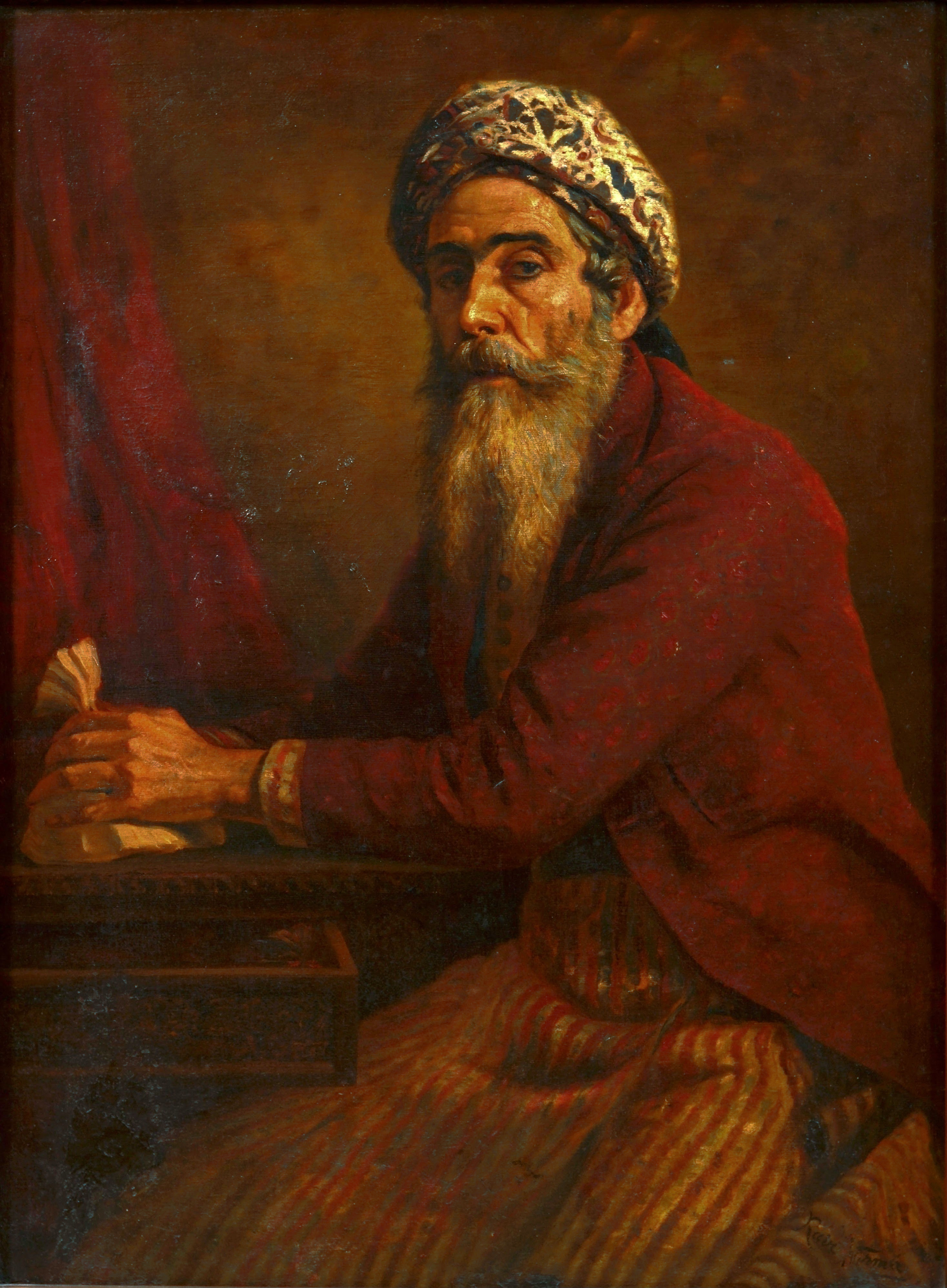 Depiction of proverbial Jewish money lender holding the money bag tightly with an expression to show that he is possessive.